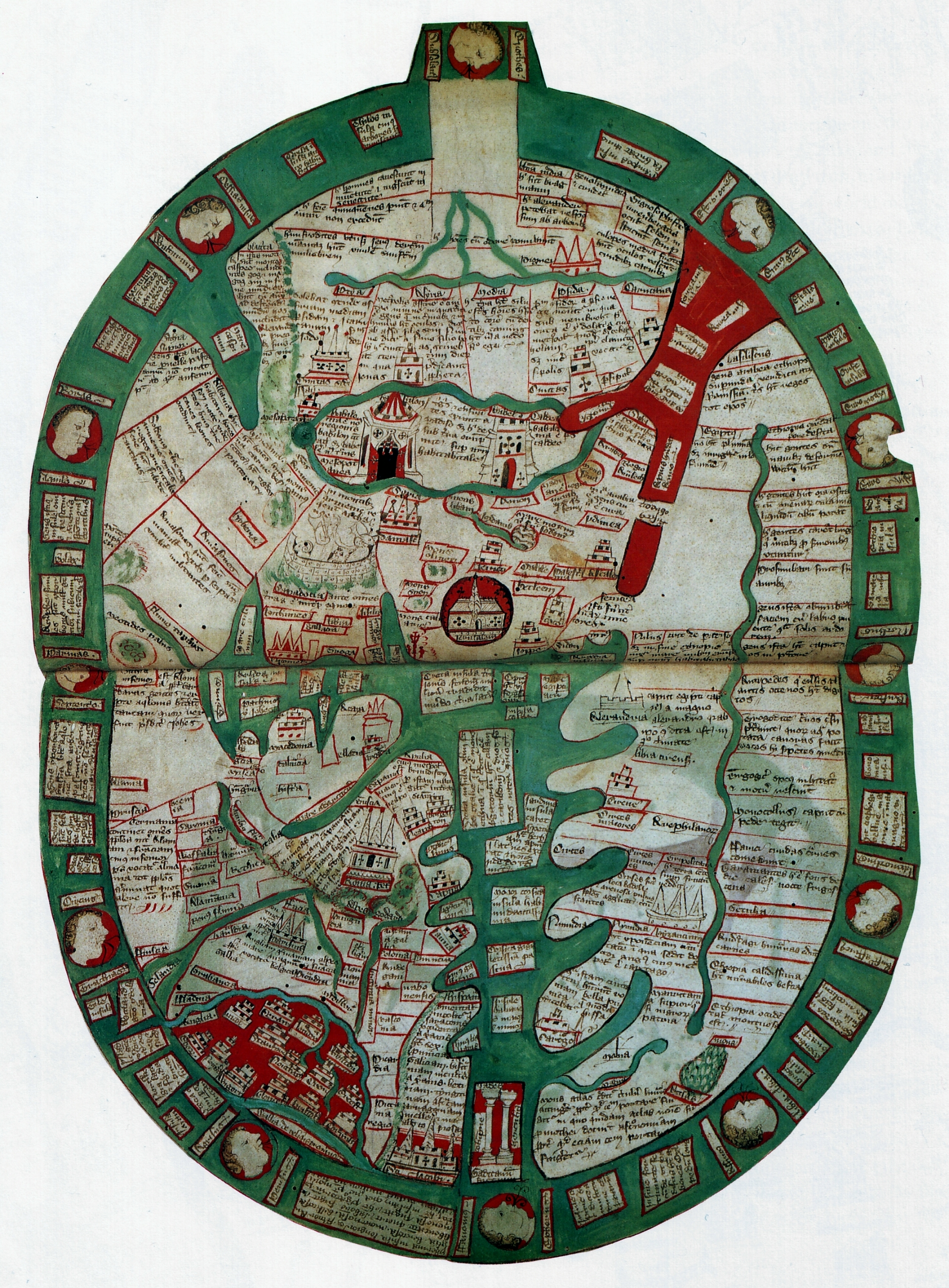 World map with east at top, Jerusalem at center, and the Red Sea shown in red at upper right. Ranulf Higden. 46 by 34 cm